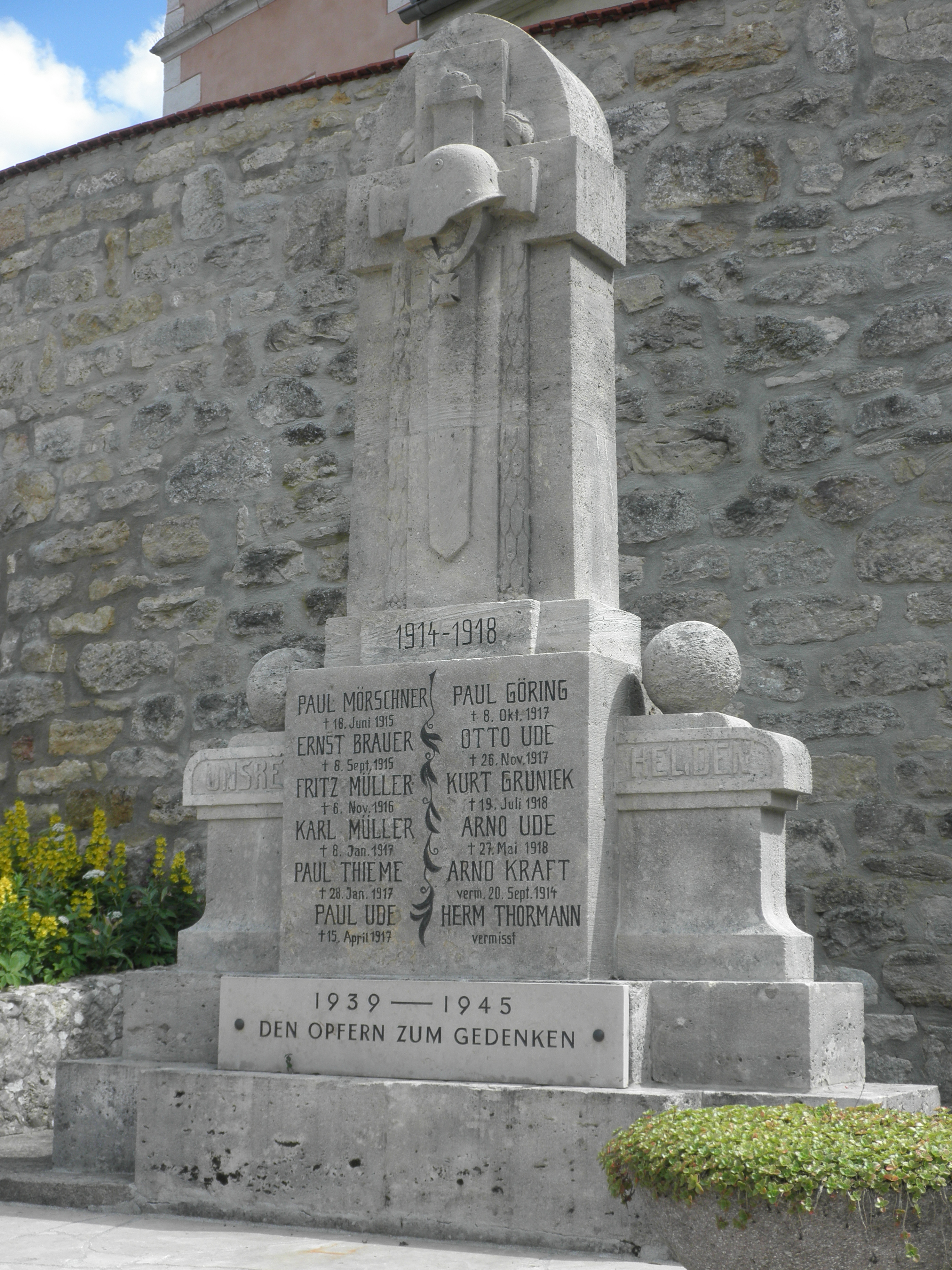 War memorial (1914-18) in Altenberga in Thuringia